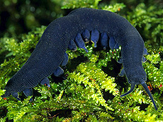 Peripatoides indigo, photographed in Nelson, New Zealand